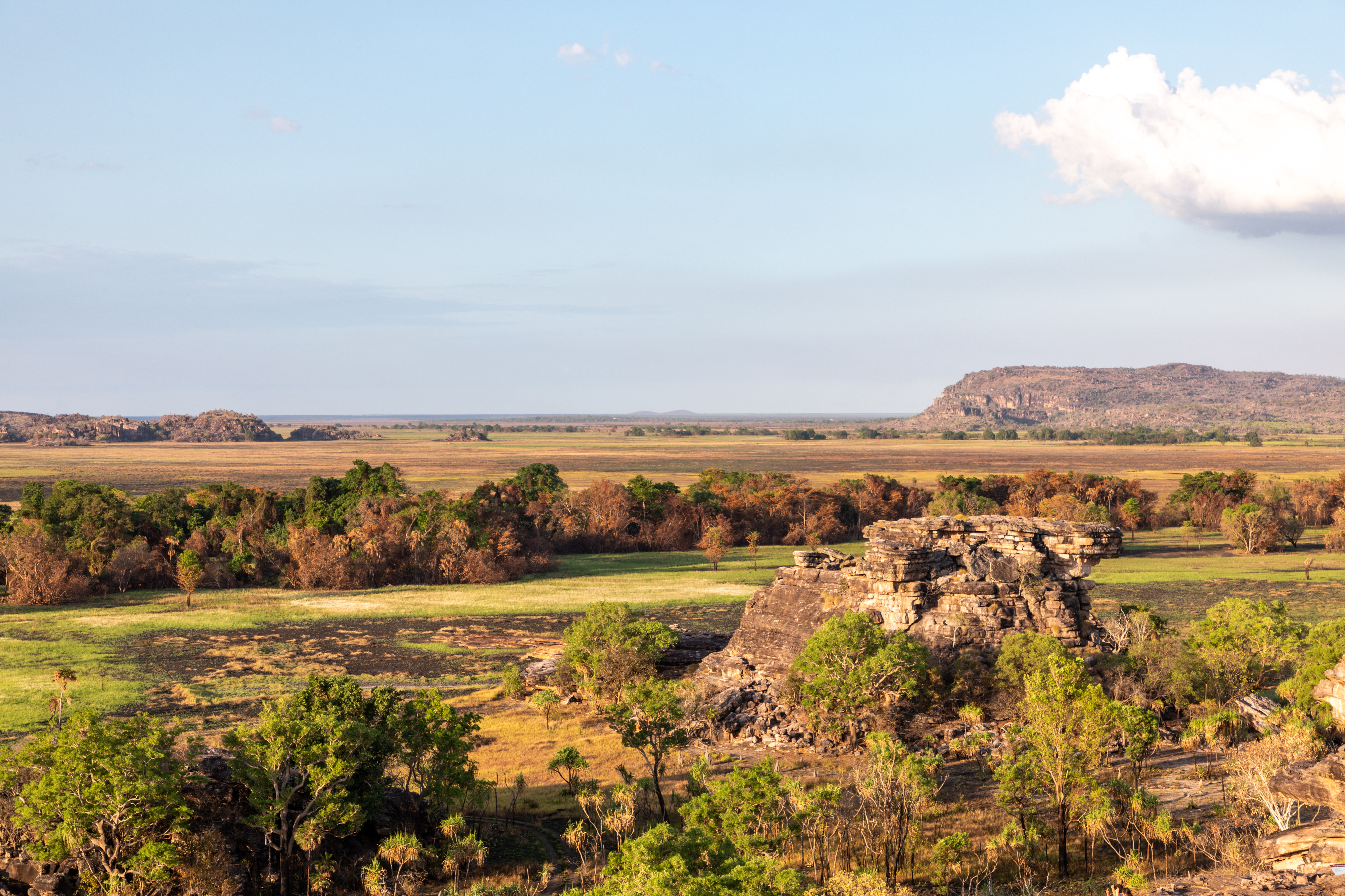 View from Nadap Lookout, Kakadu National Park, Northern Territory, Australia